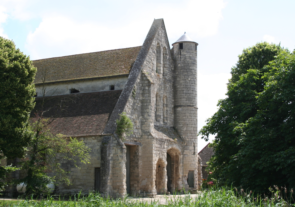 Gable of the Barn of Vaulerent, Villeron, Val-d'Oise, France. XIII cent. (1220-1230 ?)